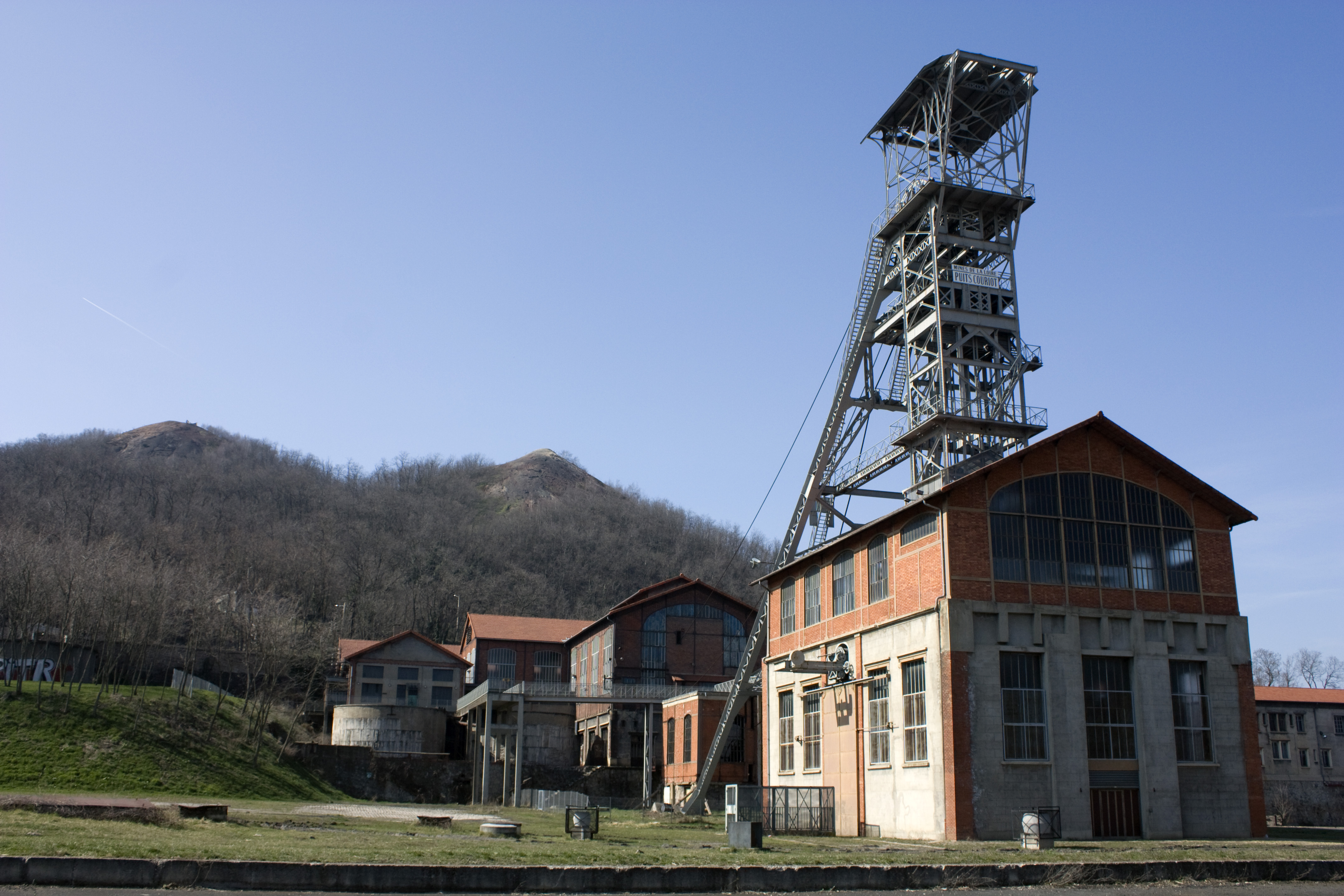 Winding towers of the pit Couriot, seen fron the mine couryard.